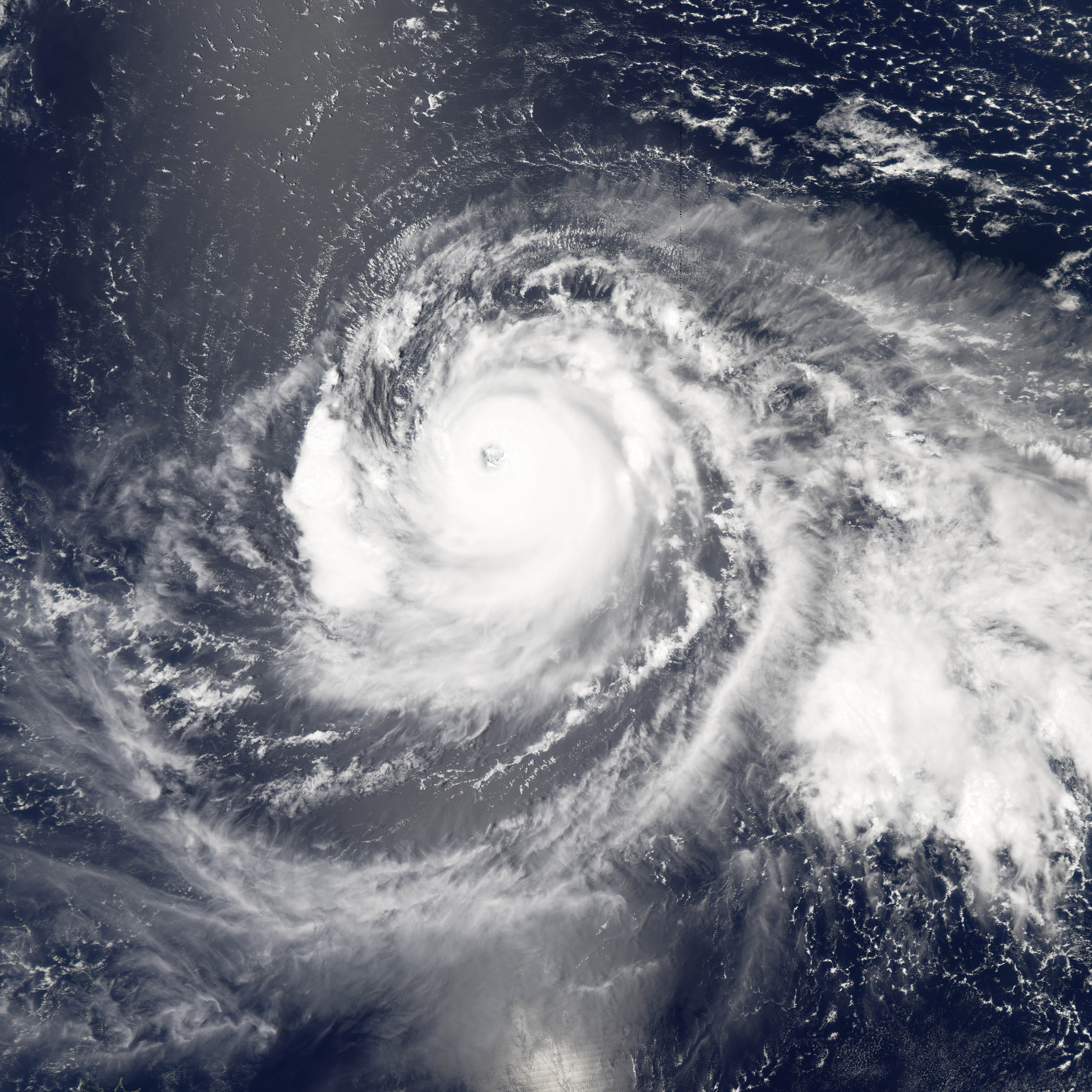 Typhoon Ioke started as all tropical cyclones do, as a depression—an area of low atmospheric pressure. After forming on August 19, 2006, the depression quickly developed into a tropical storm, the threshold for earning a name. Ioke is the Hawaiian word for the name Joyce. Storms and hurricanes in the central Pacific are unusual, but they occur often enough for there to be a naming convention, applied by the Central Pacific Hurricane Center in Honolulu. The last named central Pacific storm was Huko in 2002. Ioke rose all the way to hurricane strength in less than 24 hours. Ioke also performed another unusual trick, crossing the International Date Line on August 27, which by convention means the tropical cyclone was then called a typhoon instead of a hurricane. This photo-like image was acquired by the Moderate Resolution Imaging Spectroradiometer (MODIS) on the Aqua satellite on August 28, 2006, at 1:30 p.m. local time (01:30 UTC). Typhoon Ioke at the time of this image had a well-defined round shape, clear spiral-arm structure, and a distinct but cloud-filled (or “closed”) eye. The University of Hawaii’s Tropical Storm Information Center reported that Typhoon Ioke had sustained winds of around 245 kilometers per hour (155 miles per hour) at the time this satellite image was acquired.